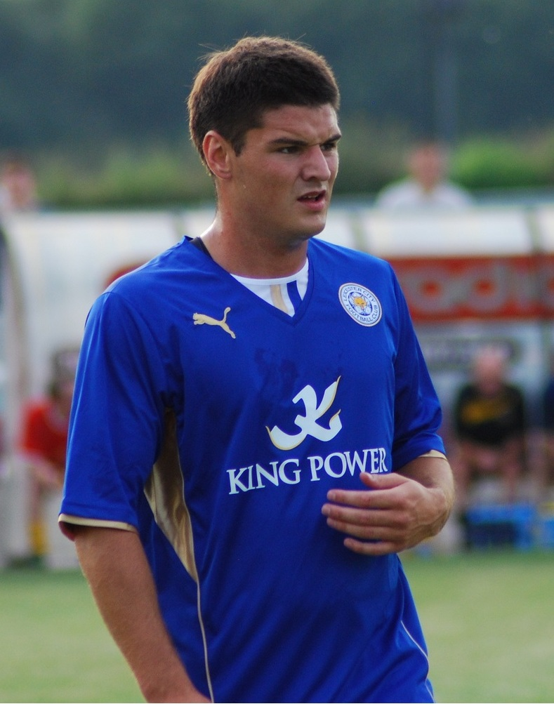 Pre Season 2013